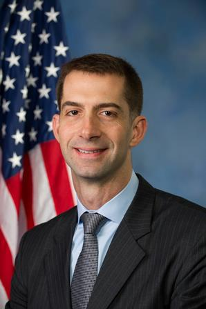 US Congressman Tom Cotton